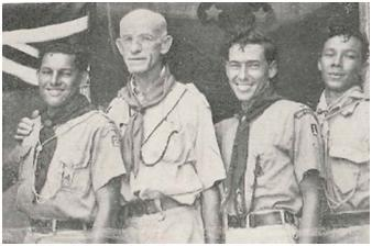 Bro. John M. Jacoby, SJ, Belizean missionary 1928-1957, prominent in the Boy Scout movement